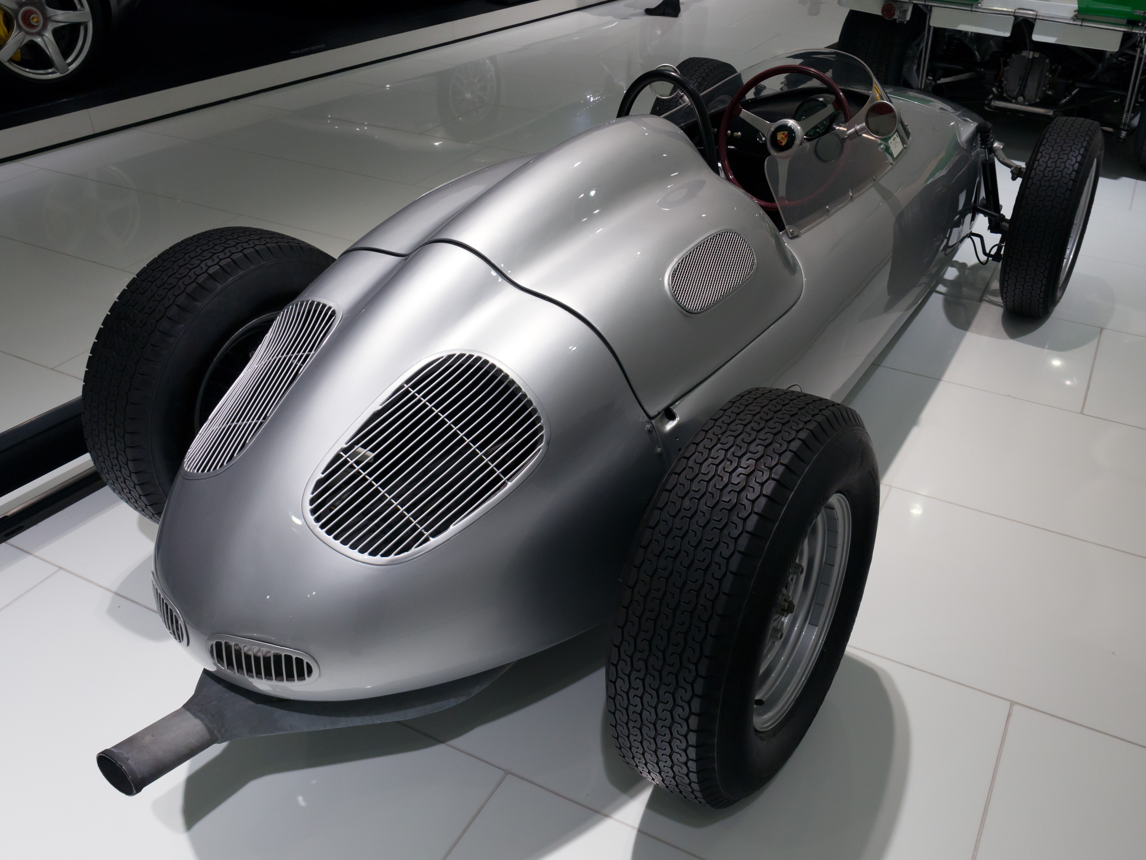 1960 Porsche 718 F2